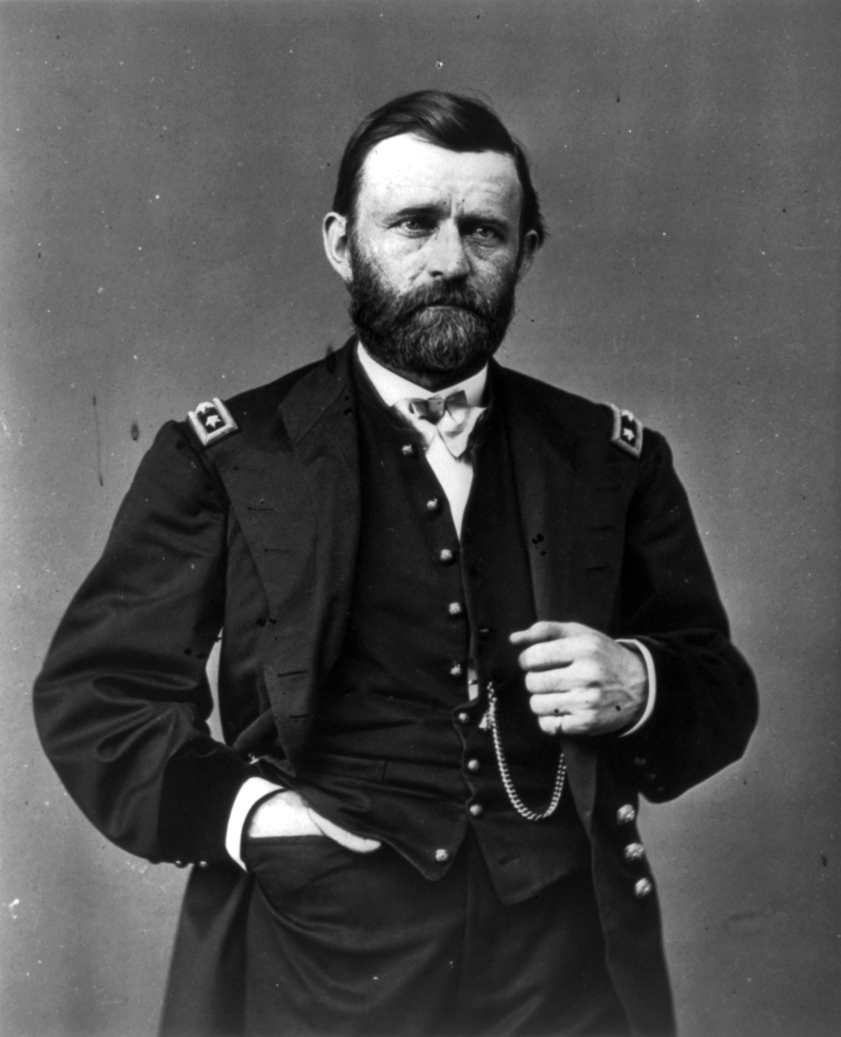 Ulysses S. Grant